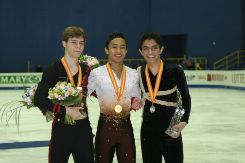 The men's podium at the 2008-2009 Junior Grand Prix Final. From left: Richard Dornbush (3rd), Florent Amodio (1st), Armin Mahbanoozadeh (2nd).